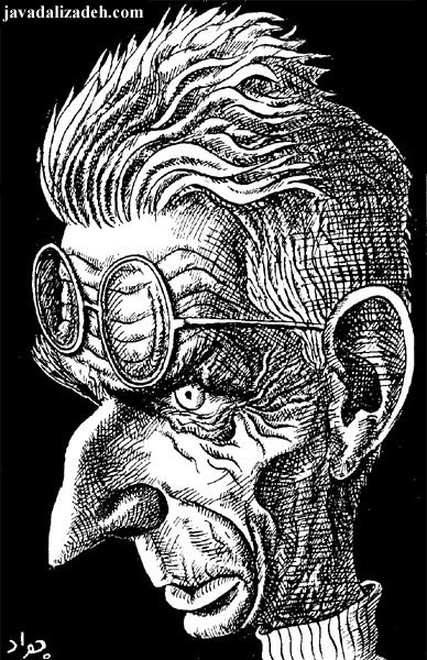 Caricature of Samuel Beckett by Iranian cartoonist Javad Alizadeh